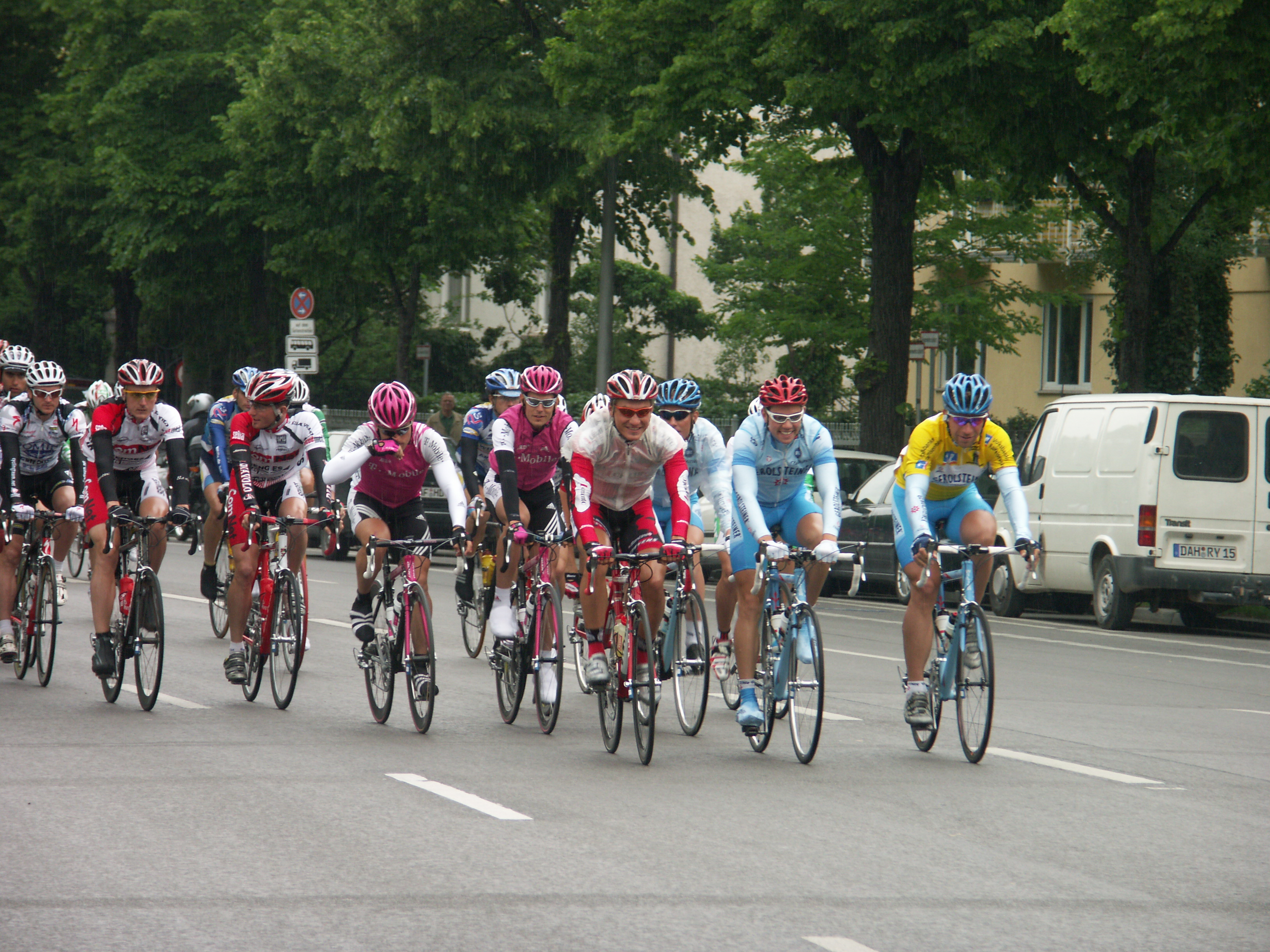 Start of Bicycle Race Bayern Rundfahrt 2004 in Munich